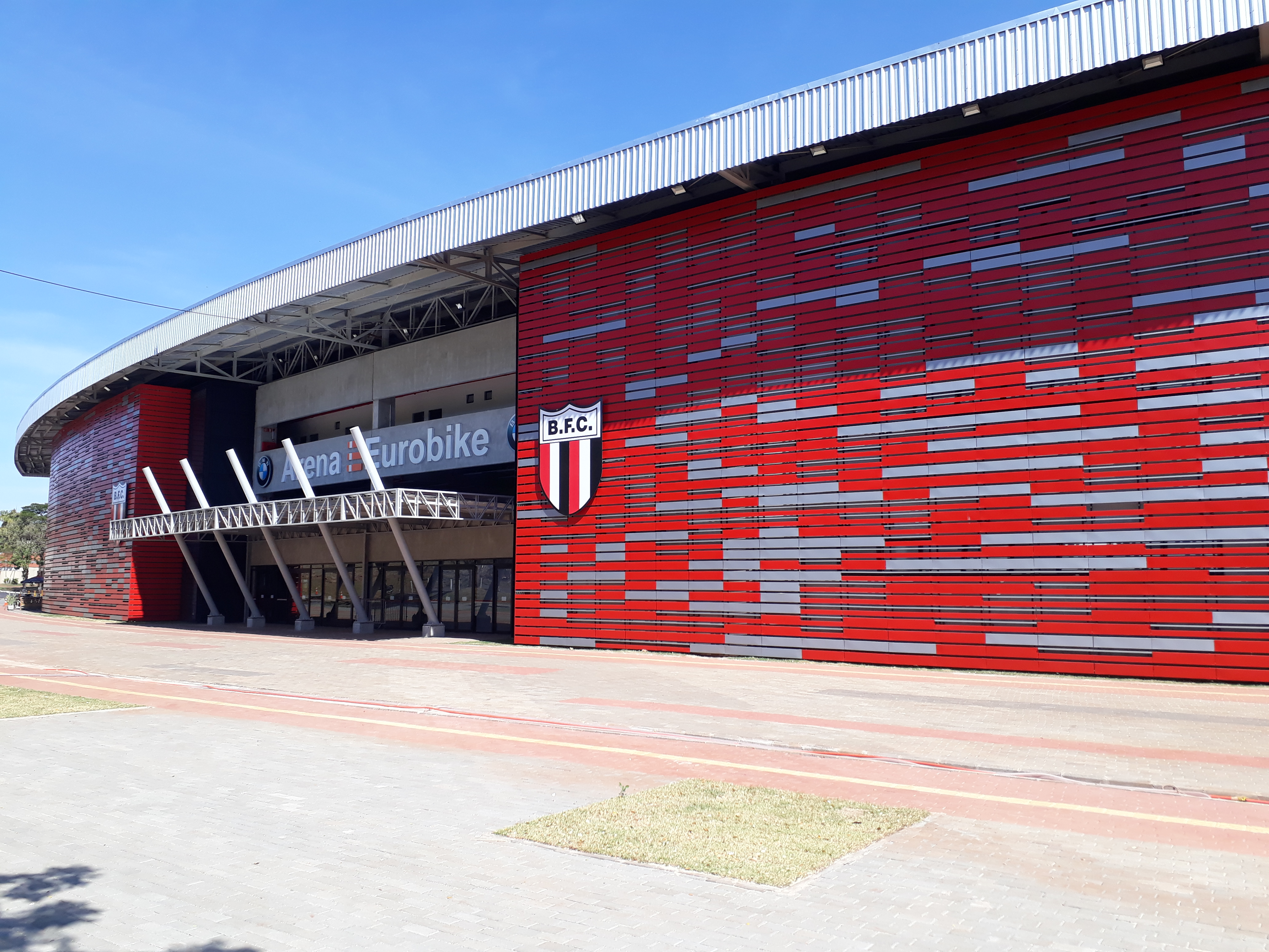 Partial image of the facade of the Botafogo Football Club of Ribeirão Preto / SP.